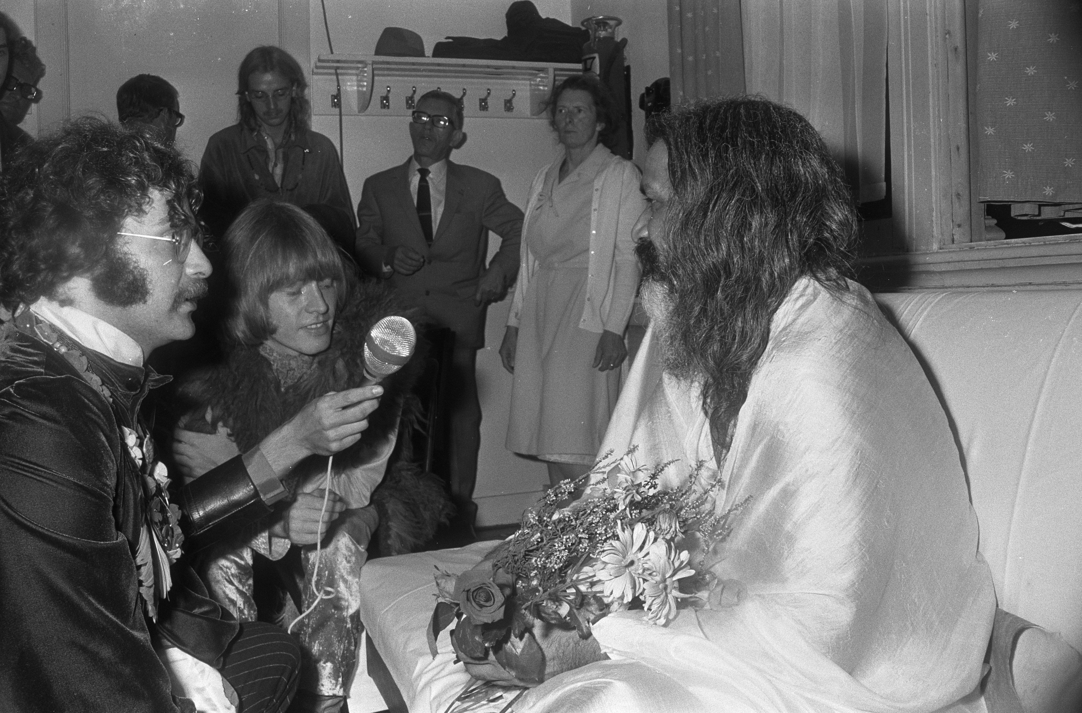 From left to right: Shepard Sherbell, Brian Jones & Maharishi Mahesh Yogi. Concertgebouw Amsterdam (NL), 1 Sept. 1967. Photo by Ben Merk (Anefo)